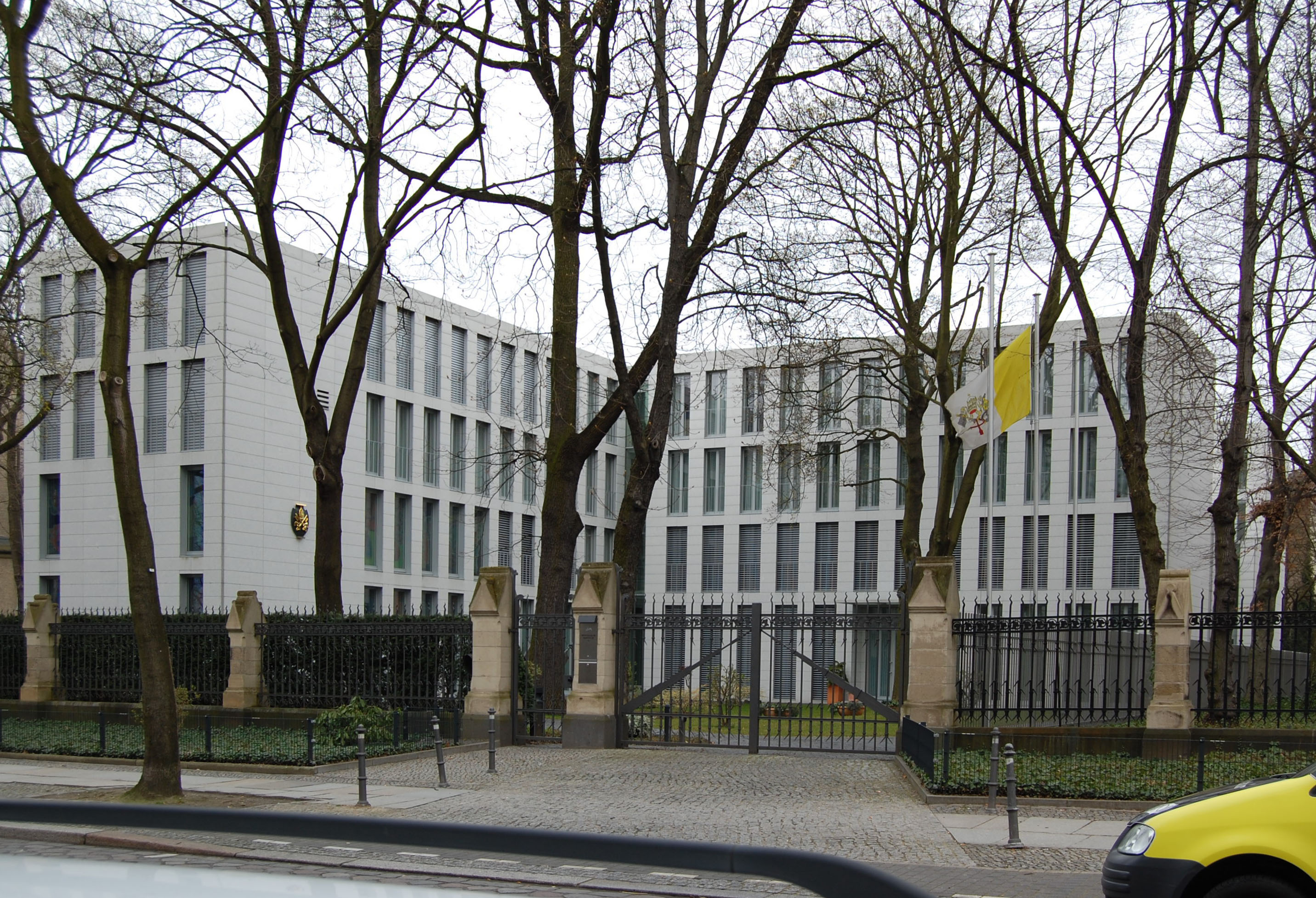 Apostolic nunciature (Embassy of Vatican) in Berlin